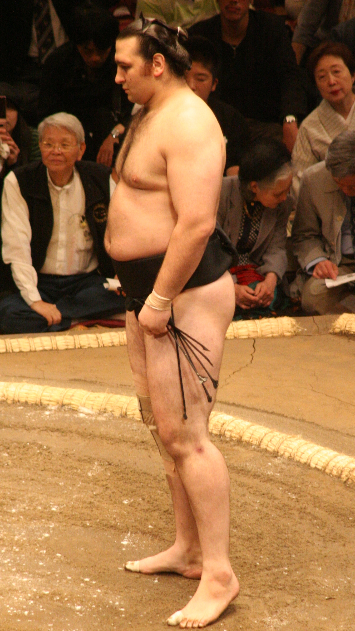 First day of 2009 May Sumo Tournament in Tokyo, Japan - Kotooshu